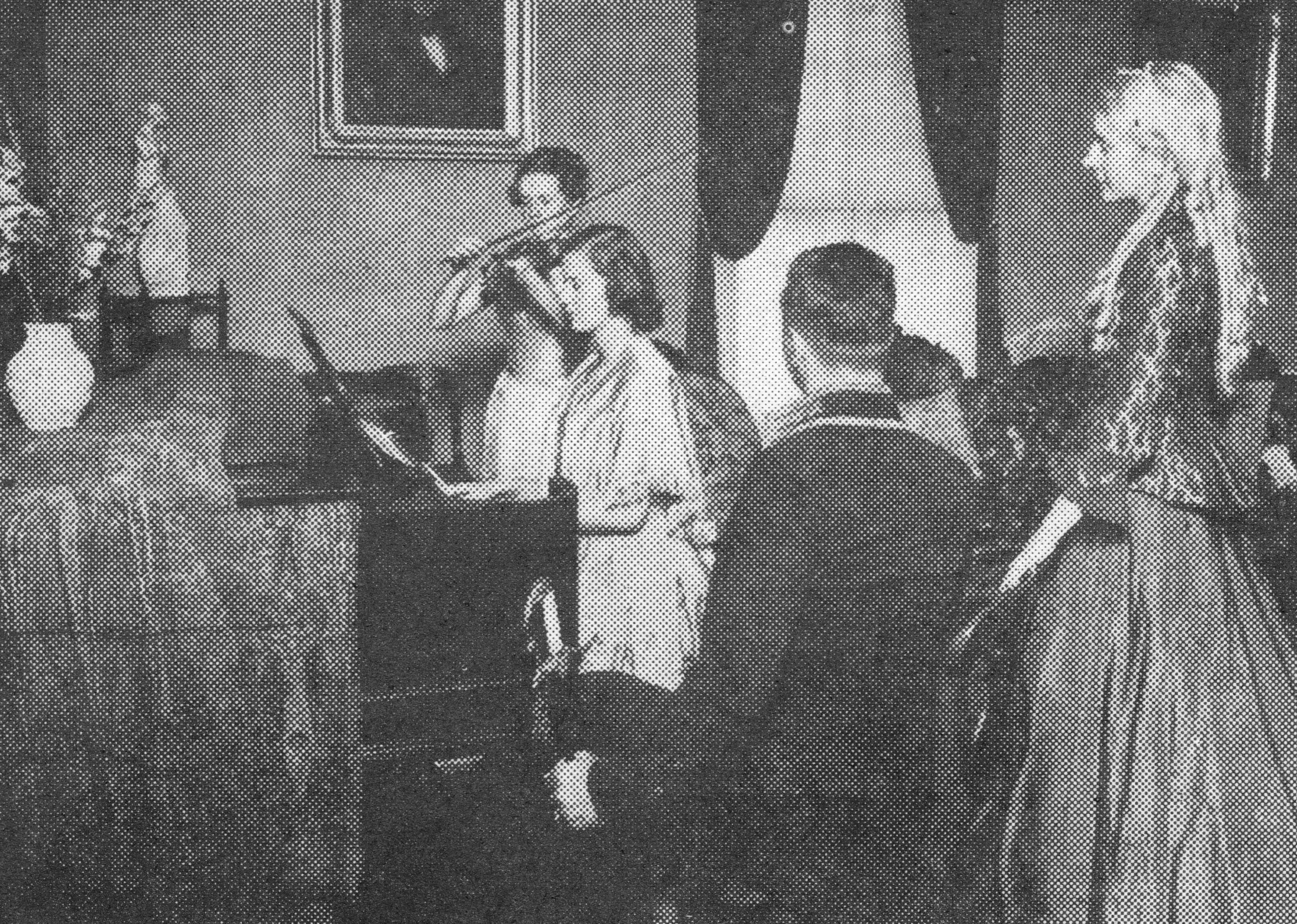 en:Black Walnut (Clover, Virginia)Template:Parlor Scene|Black Walnut (Clover, Virginia)